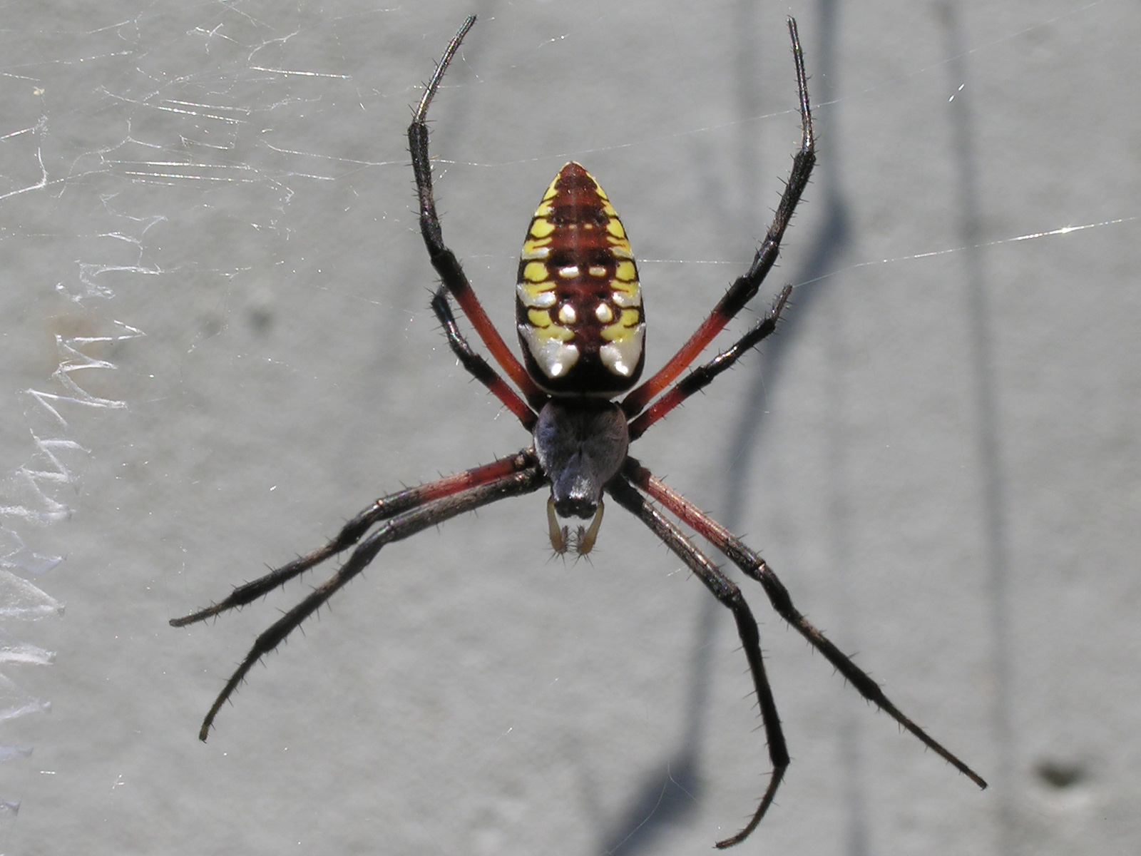 Black and Yellow Garden Spider (Argiope aurantia), photographed in Nashville, Tennessee.